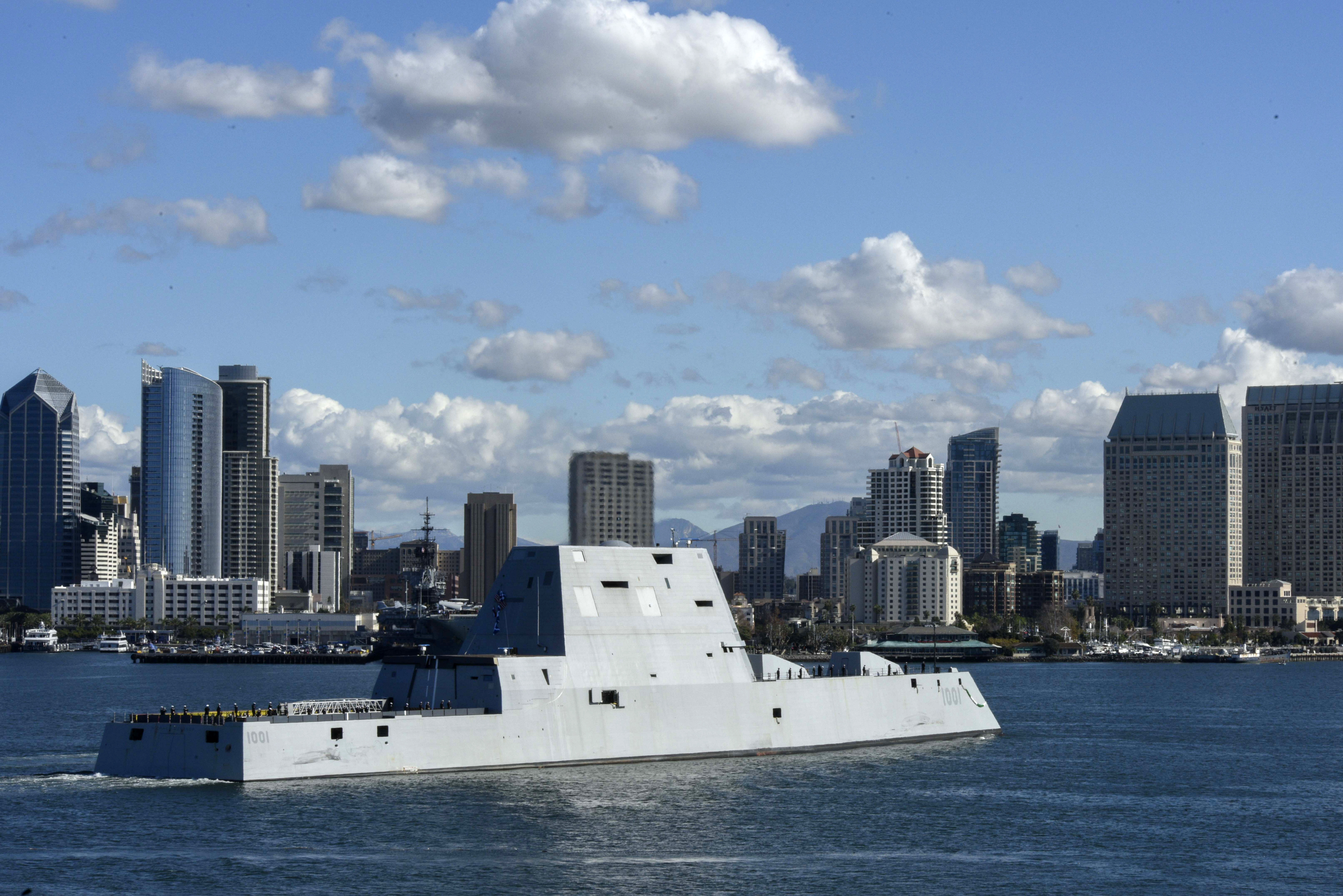 SAN DIEGO (Dec. 7, 2018) The Pre-Commissioning Unit (PCU) Michael Monsoor (DDG 1001) arrives in homeport of San Diego. The future USS Michael Monsoor is the second ship in the Zumwalt-class of guided- missile destroyers and will undergo a combat availability and test period. The ship is scheduled to be commissioned into the U.S. Navy Jan 26, 2019 in Coronado, Cailf. (U.S. Navy photo by Mass Communication Specialist Seaman Apprentice Nicholas Huynh/Released) 181207-N-IW125-1021